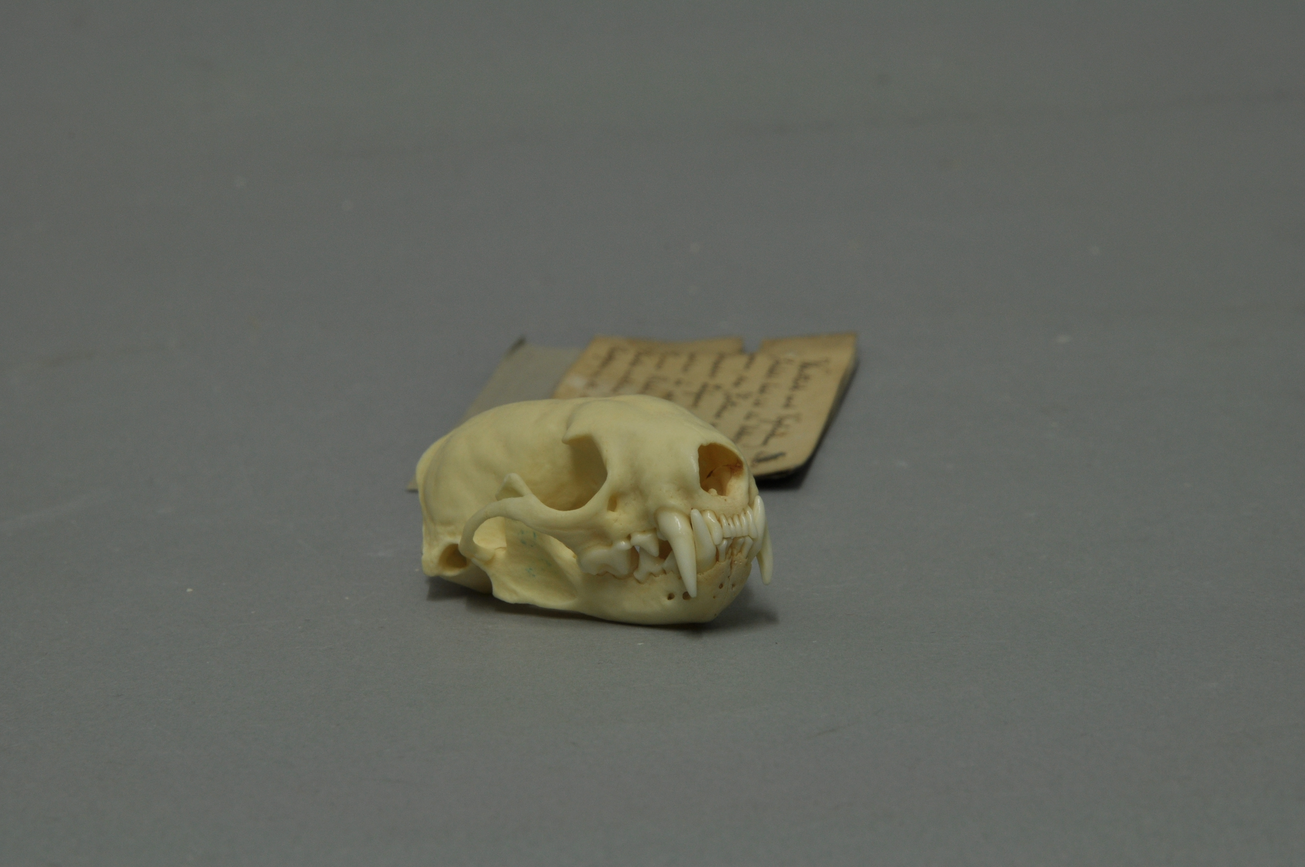 Marbled polecatVormela peregusna , skull, Coll. Museum Wiesbaden